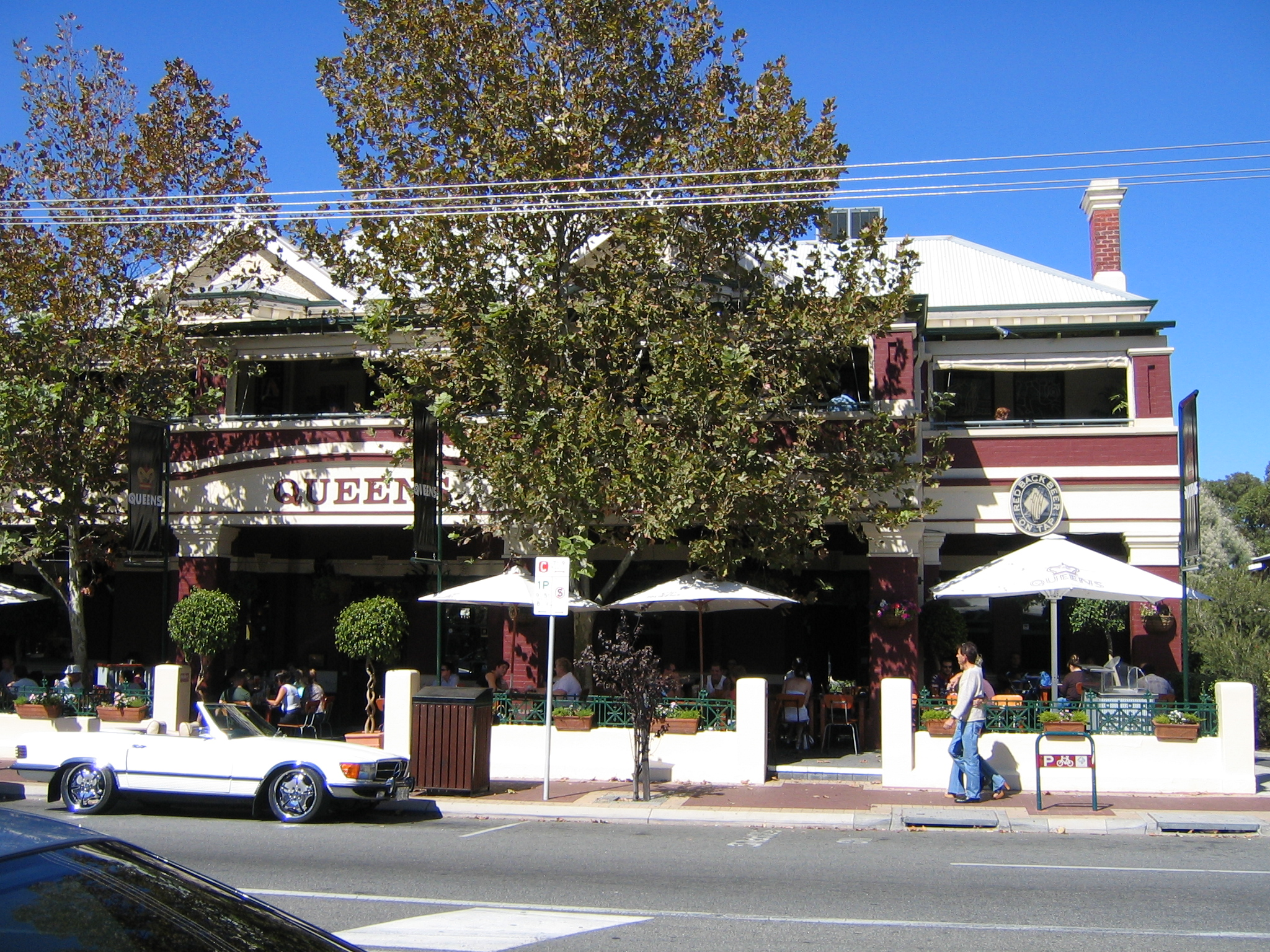 The Queens Hotel (built 1899), Highgate, Western Australia.